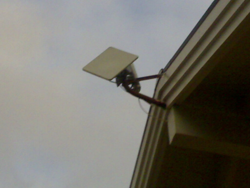 Gildeskål Bredbånd wireless access network antennae.